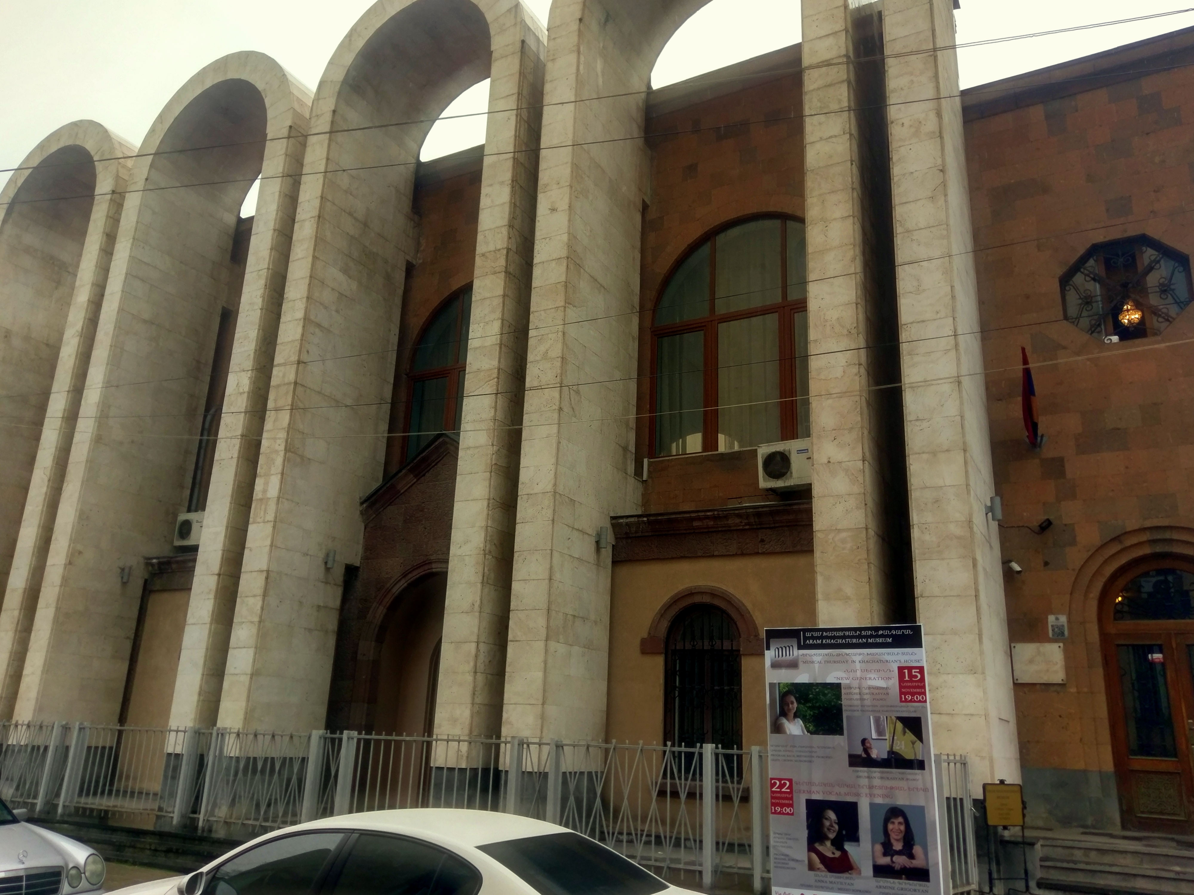 House-Museum of Aram Khachaturian